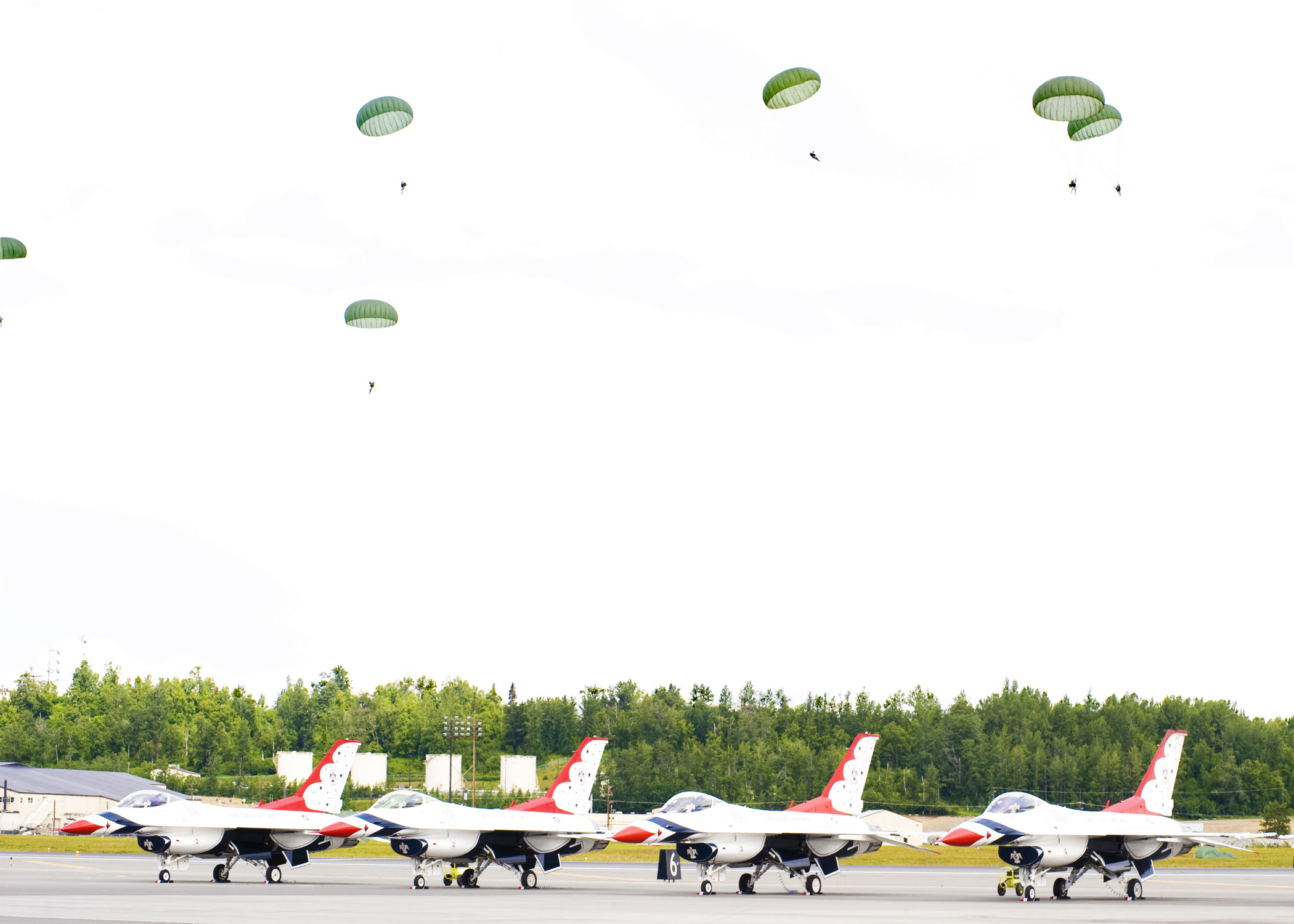 Paratroopers land near F-16 fighters belonging to the Thunderbirds